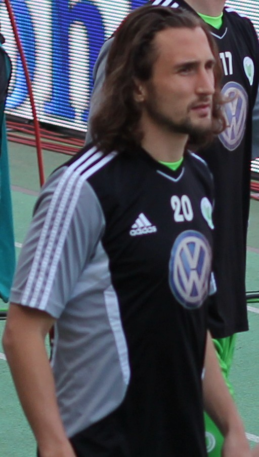 Petr Jiráček, football player for German side VfL Wolfsburg, 2011/12 season